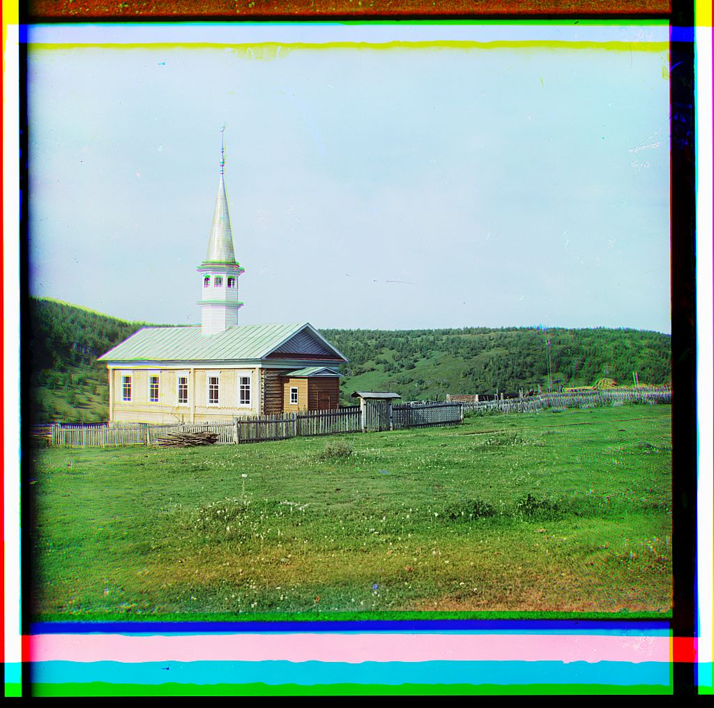 Mosque in the Bashkir village of Ekh'ia (Yakhino)